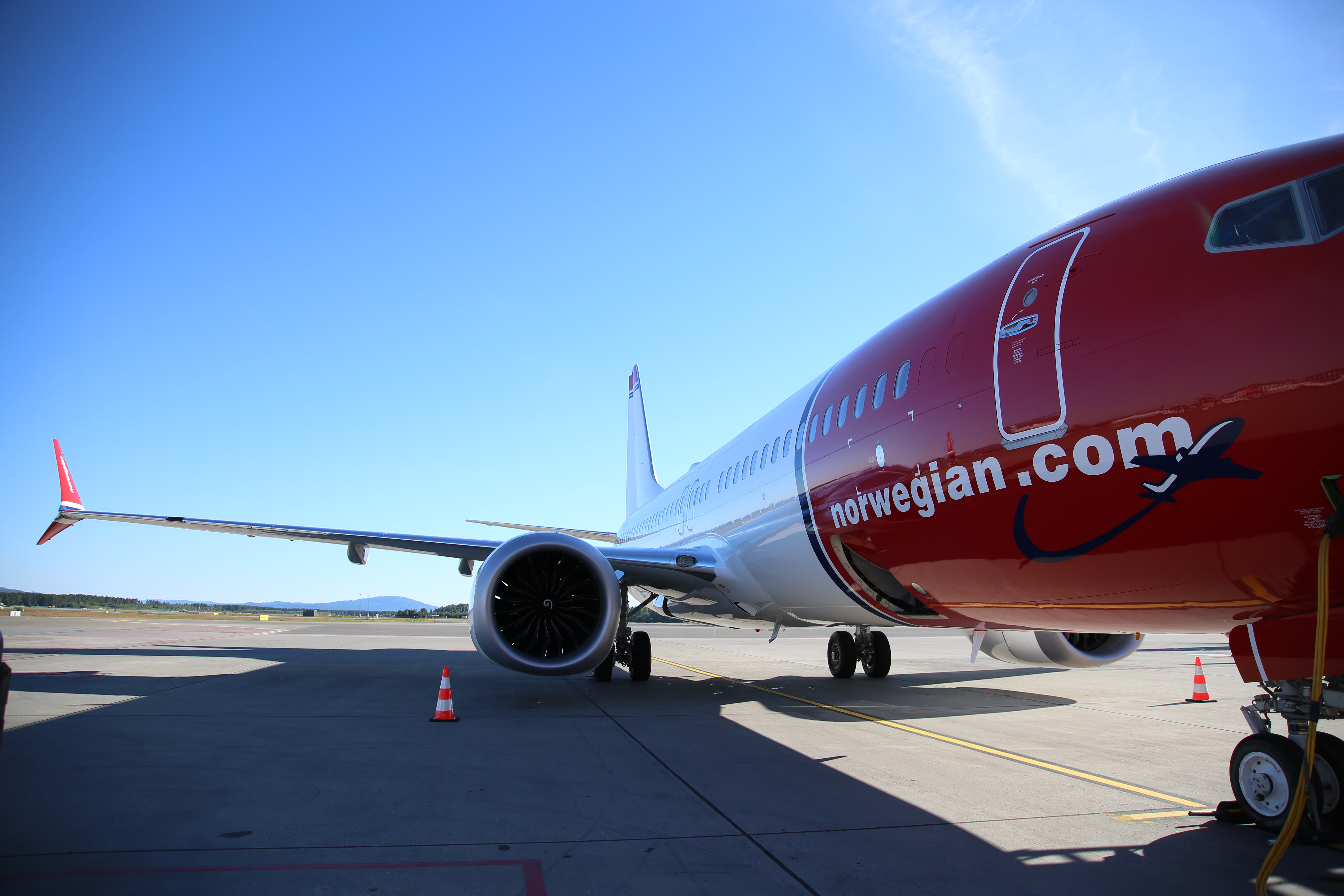 Norwegian Boeing 737 MAX 8